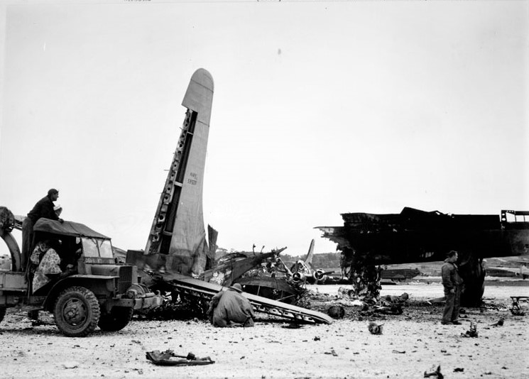 Wrecked U.S. planes after Giretsu Kuteitai Airborne attack on Yontan Airfield